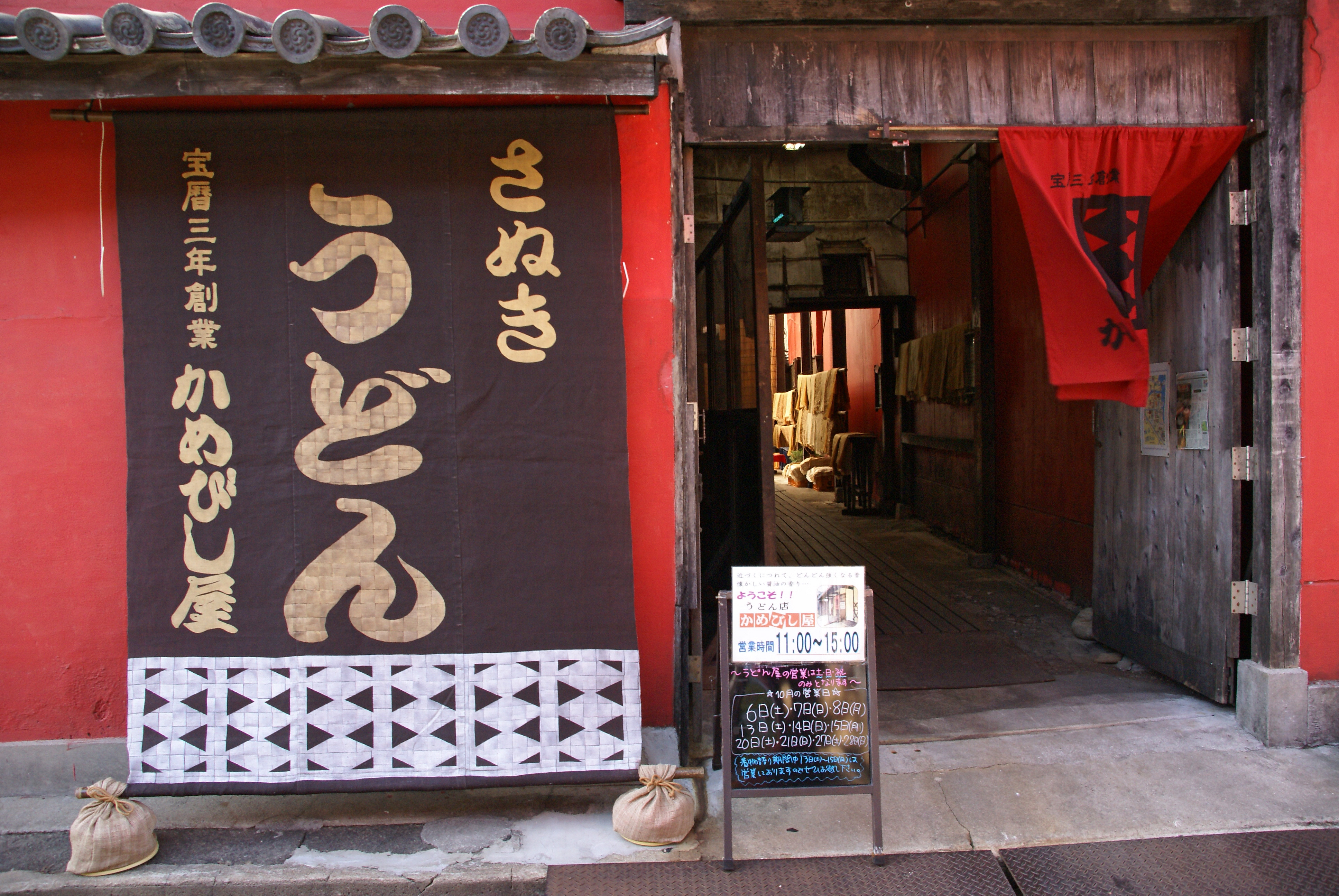 Kamebishi-ya in Hiketa, Higashikagawa, Kagawa prefecture, Japan